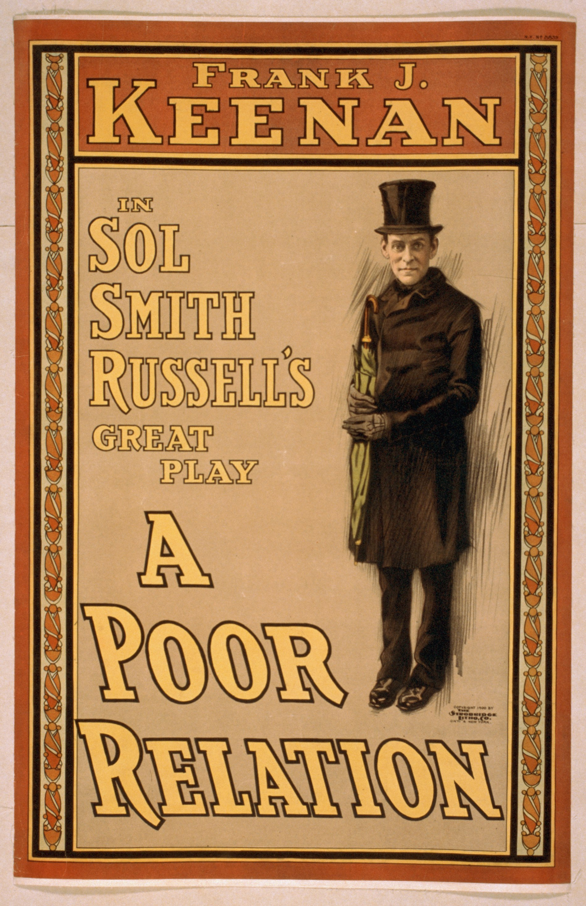 Title: Frank J. Keenan in Sol Smith Russell's great play, A poor relation Abstract/medium: 1 print : color lithograph ; sheet 75 x 49 cm. (poster format)